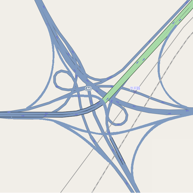 Xinzhuang Interchange in Shanghai